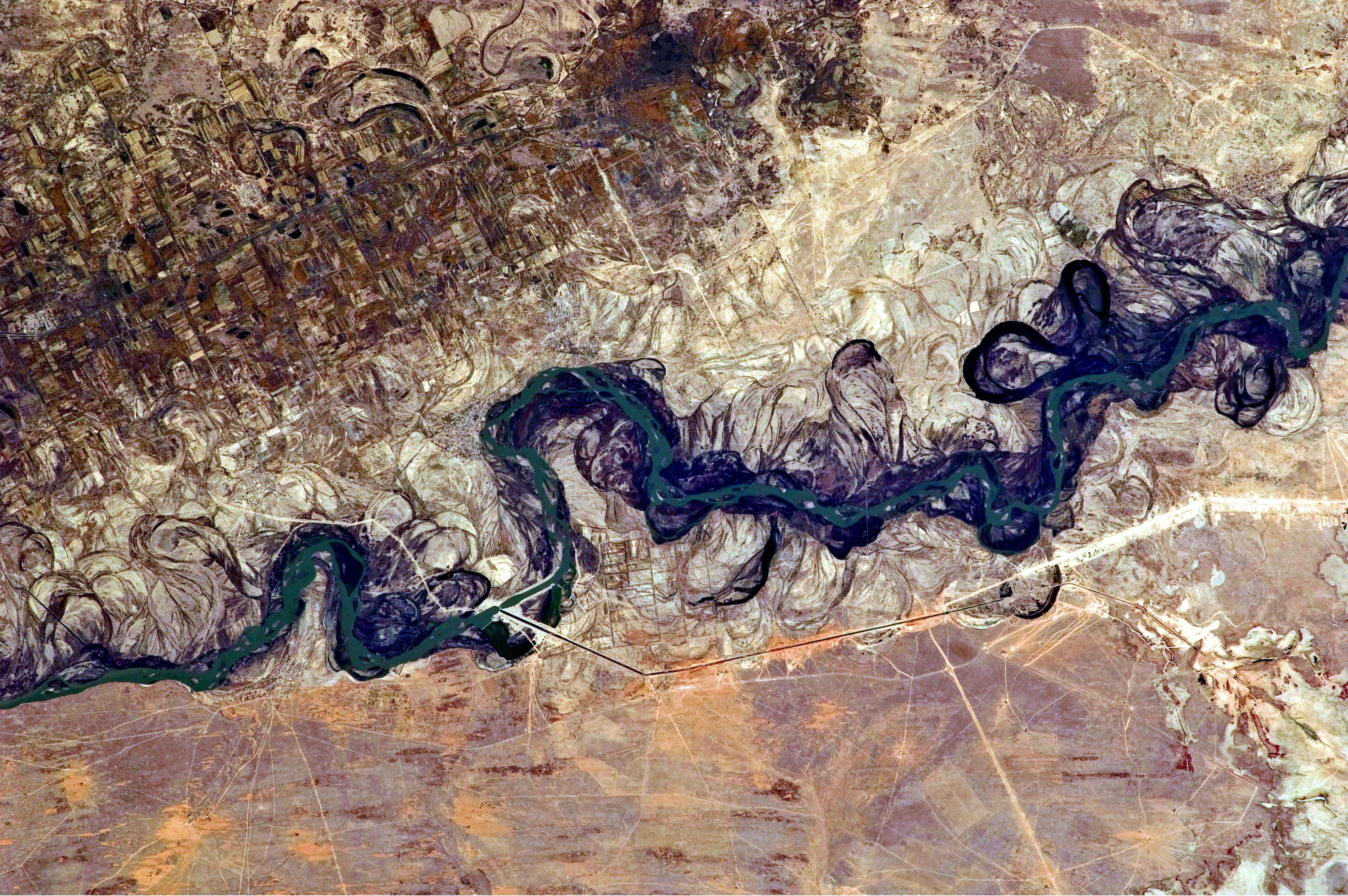 The Syr Darya River Floodplain is shown here as a tangle of twisting meanders and loops (image centre). The darkest areas are brushy vegetation along the present course (filled with blue-green water); wisps of vegetation are also visible along flanking swampy depressions, or sloughs. An older floodplain appears as more diffuse dark vegetation (image upper left), where relict bends are overlain by a rectangular pattern of cotton fields. The straight channel of a new diversion canal—one of 16 from this point downstream—can be seen along the east bank of the river. The older floodplain is fed from the Chardara Reservoir, immediately upstream (not shown). Half the river flow is controlled from reservoirs, and half from direct water take-off from canals. In contrast to the intensive agricultural use of water shown here, water control in the mountain valleys upstream is oriented more toward power generation.